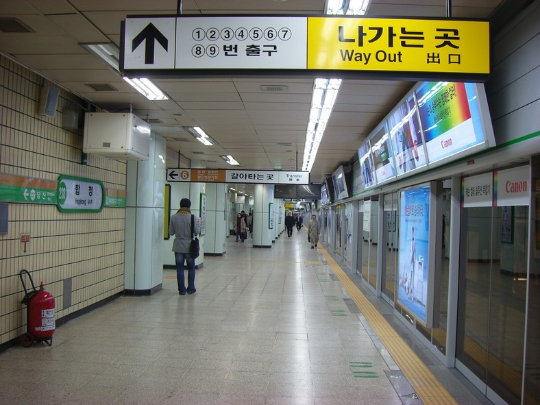 Seoul Subway Line 2 Hapjeong Station (Hapjeong Station)